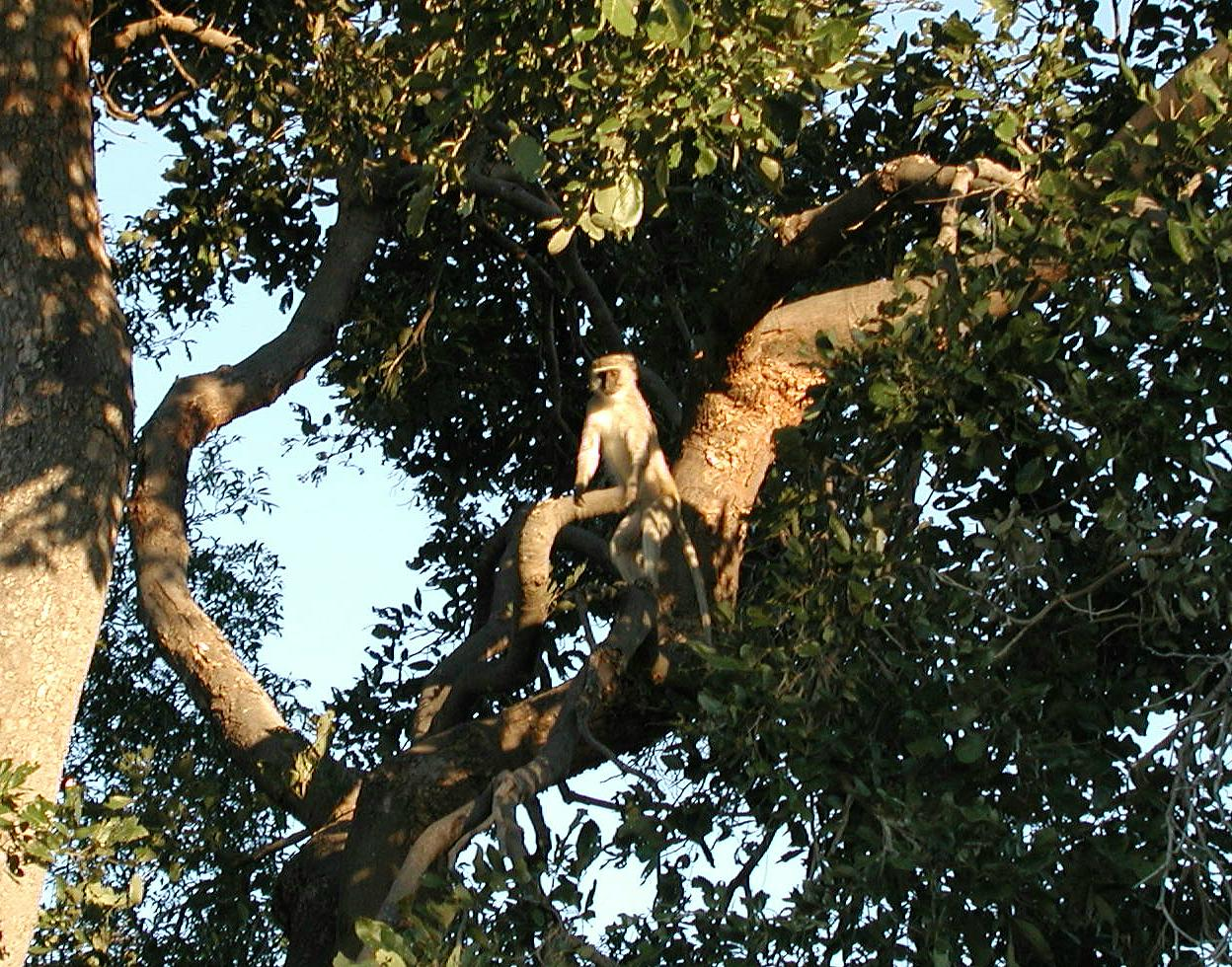 A Grivet (Chlorocebus aethiops) on a tree in Botswana.